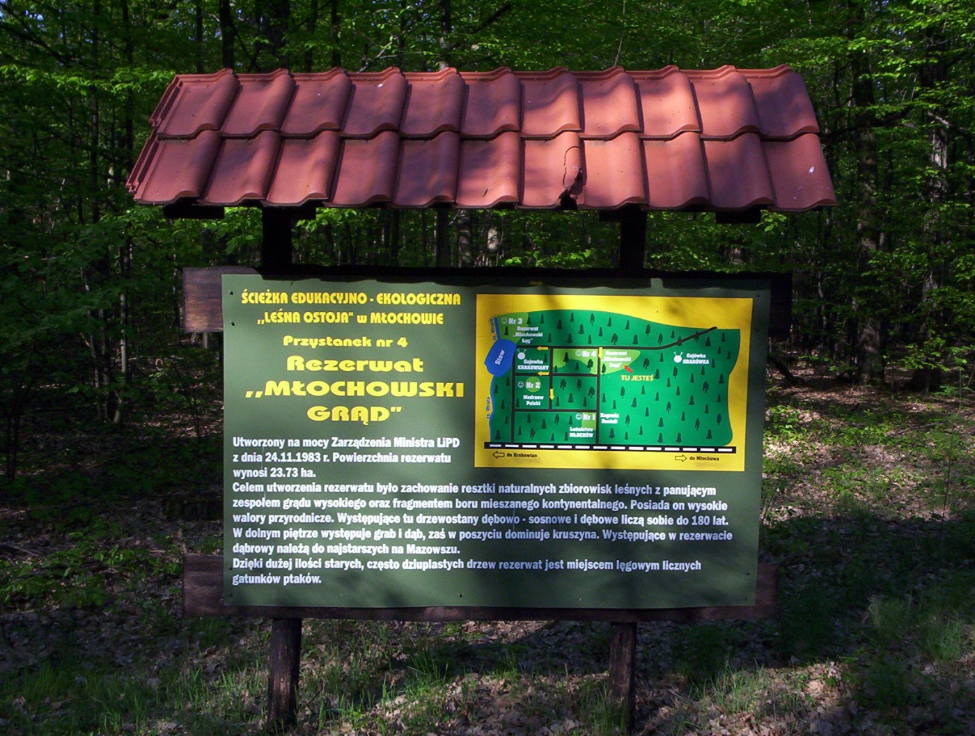 Educational trail - Nature reserve Młochowski Grąd, Poland.